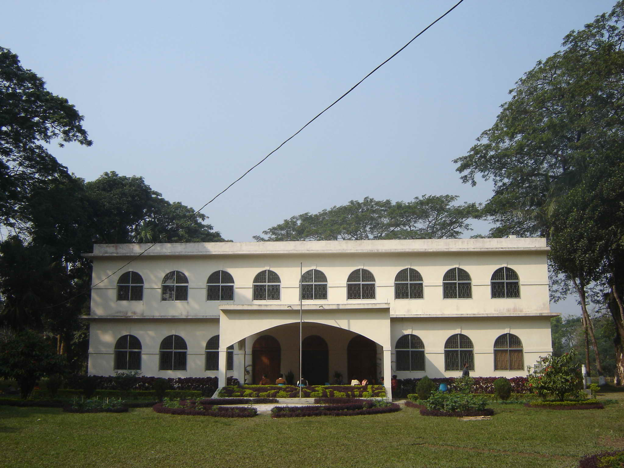 Jainul Abedin Museum in Bangladesh. Jainul Abedin Gallary. Jainul Abedin Museum.